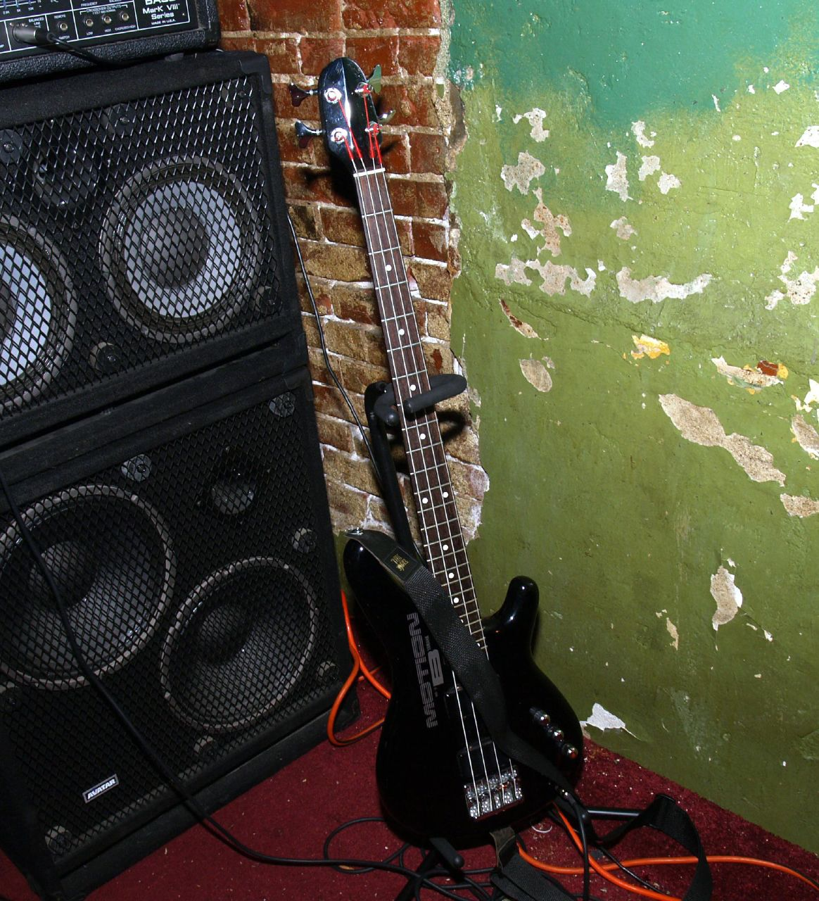 Souled Out Soul Review Yamaha MBII Motion Bass Peavey Mark VIII Bass Amp Head Avatar B210 Neodymium bass guitar cab. Avatar B212 Neodymium bass guitar cab. Flickr Tags: souled out soul review wade johnstone Christina Rutz.....PAPARUTZI. from Flickr album "SOULED OUT SOUL REVIEW" by christina rutz "